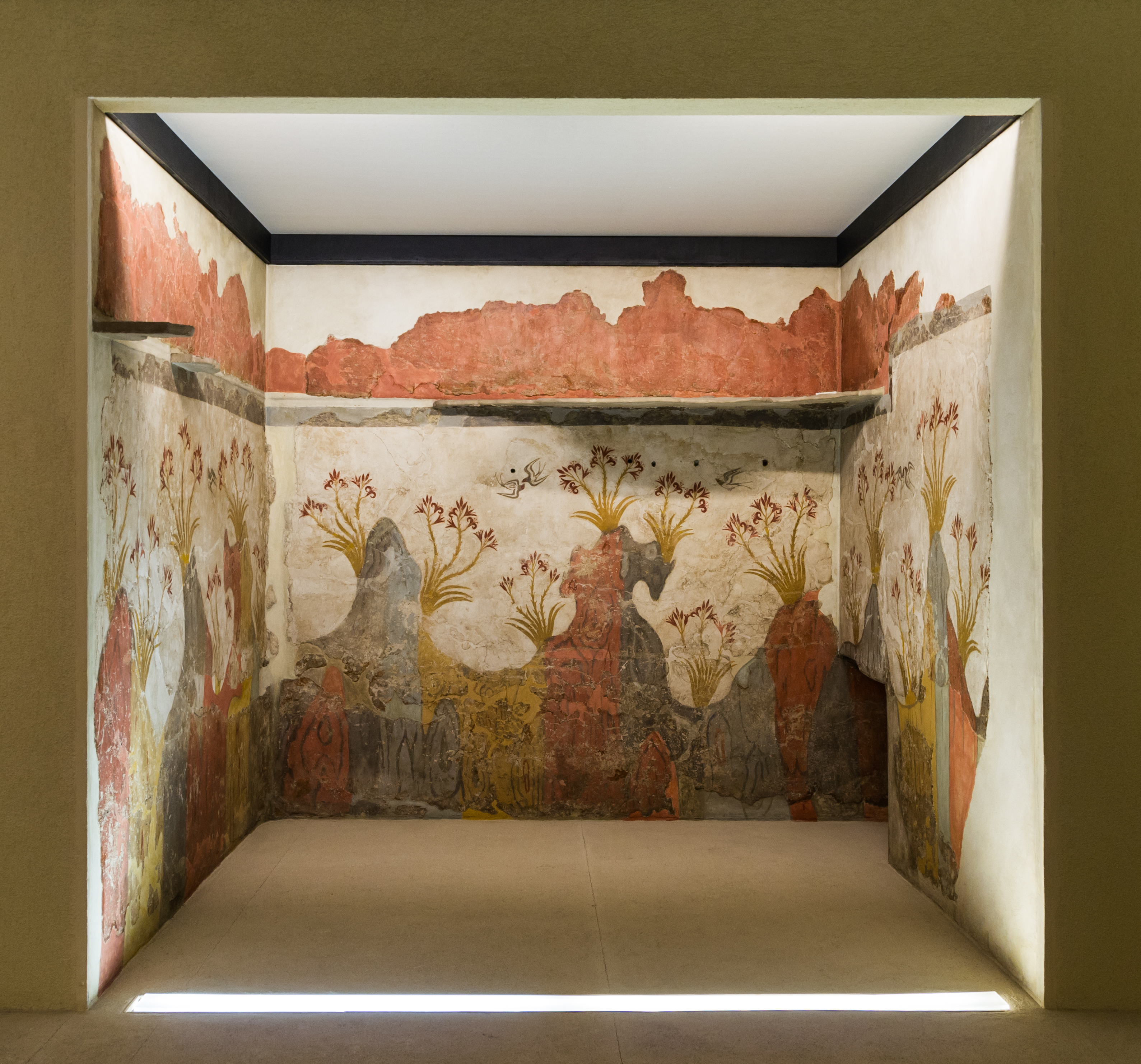 The "Spring fresco" of Akrotiri. This is the only wall-painting found in situ in Santorini (a.k.a. Thera), covering three walls of the same room. NAMA, N°BE 1974.29